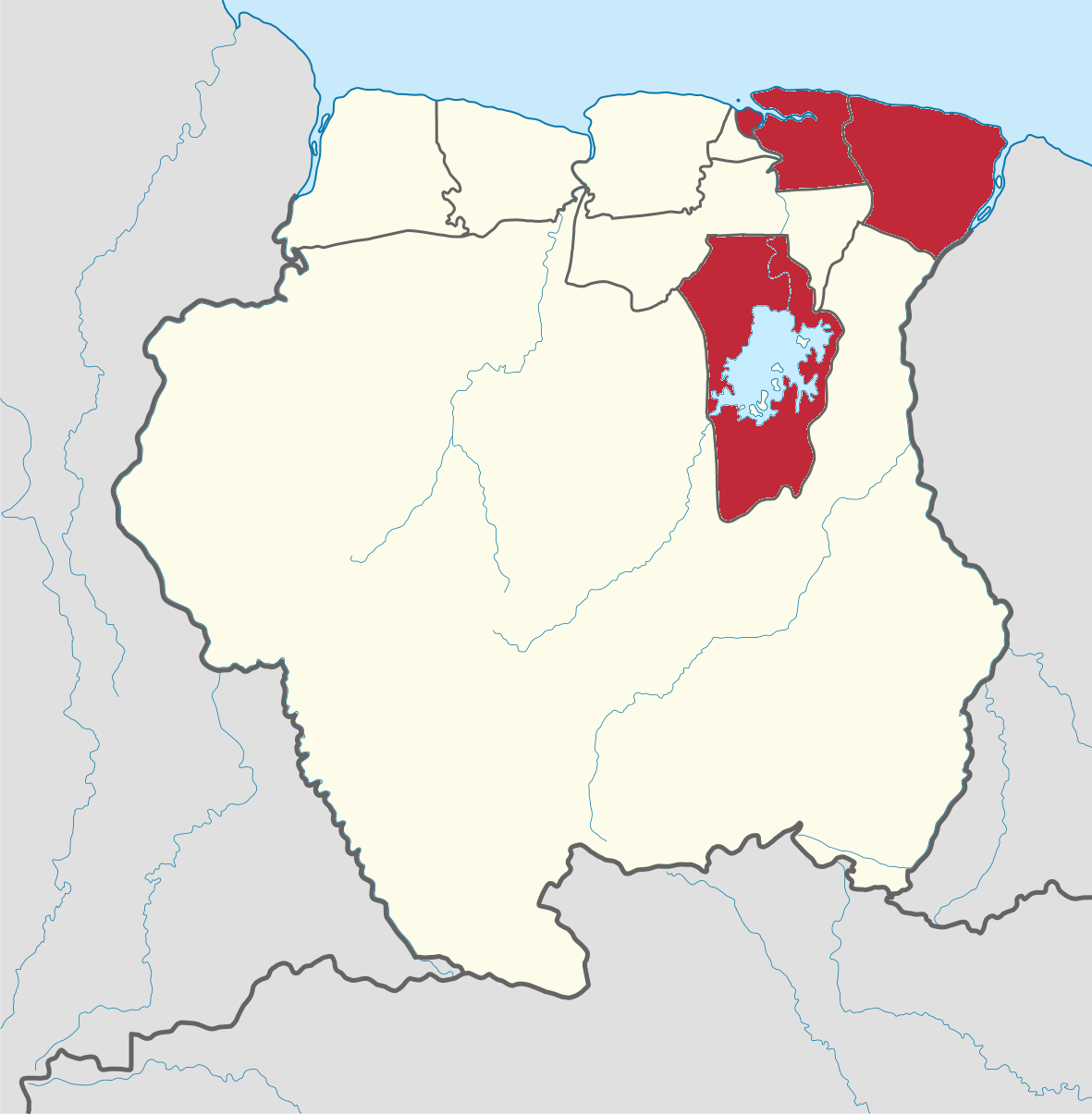 This is the current COVID-19 spread across Suriname as of 30 May 2020. The red districts have 1-10 cases